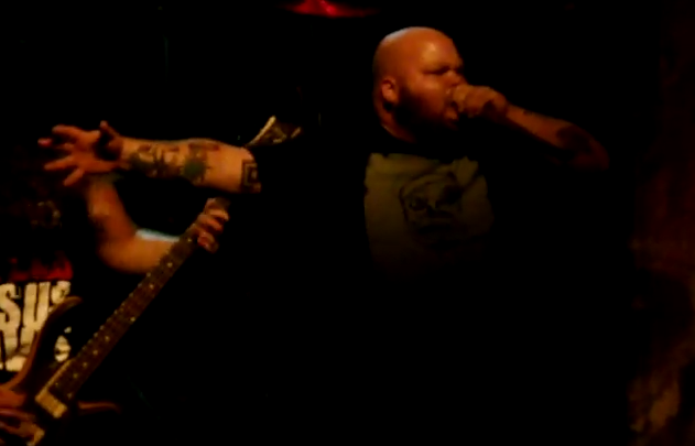 A screen capture from my video of A Plea For Purging in 2011.